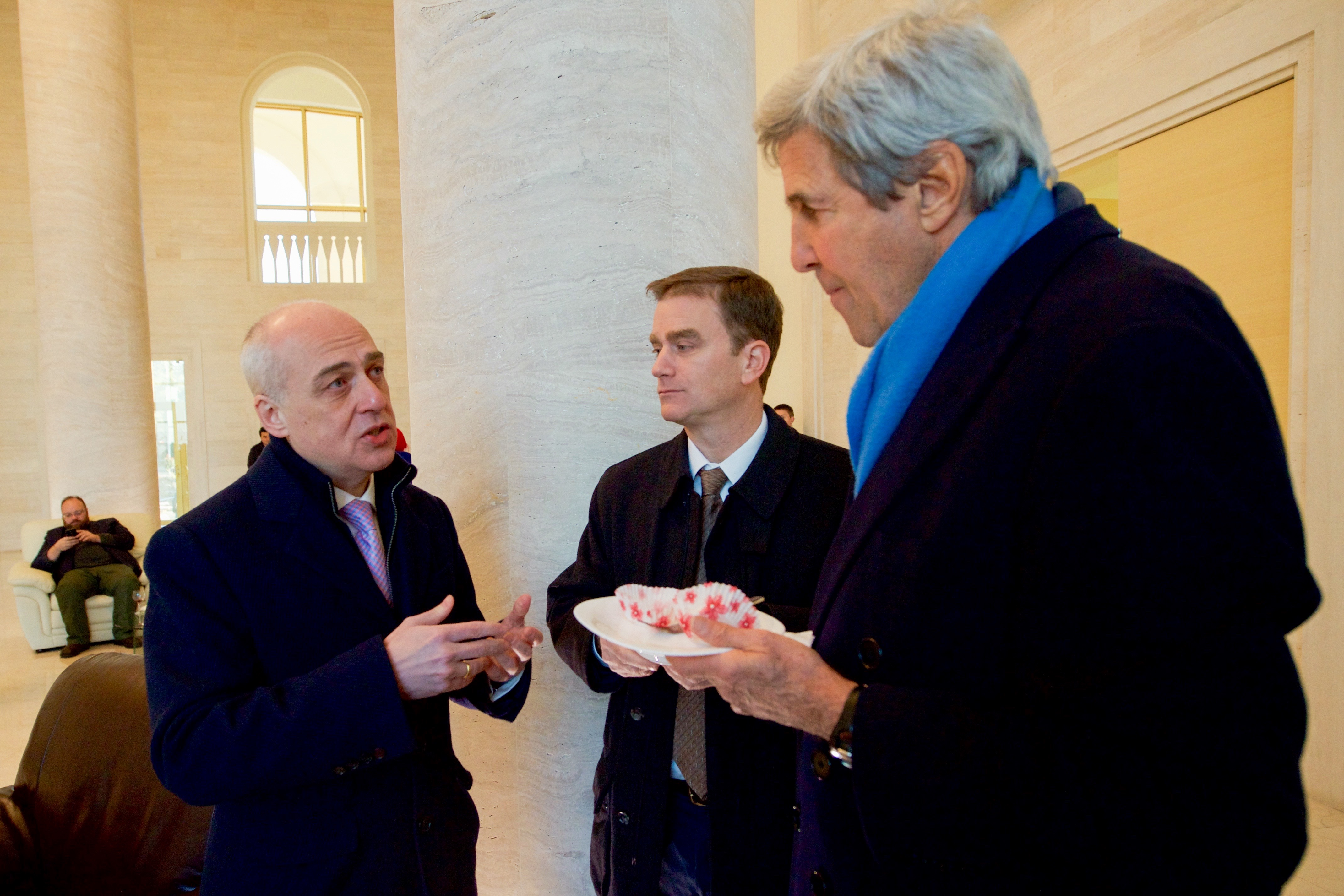 U.S. Secretary of State John Kerry chats with Georgia First Deputy Foreign Minister David Zalkaliani, and U.S. Embassy Tbilisi Deputy Chief of Mission Nicholas Berliner at Tbilisi International Airport in Tbilisi, Georgia, on January 12, 2016, amid a re-fueling stop during his final trip aboard, with stops in Vietnam, France, the United Kingdom, and Switzerland. [State Department photo/ Public Domain]